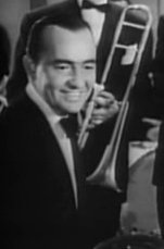 Cropped screenshot of Freddy Martin from the film Stage Door Canteen.